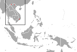 Small-toothed Mole (Euroscaptor parvidens) range